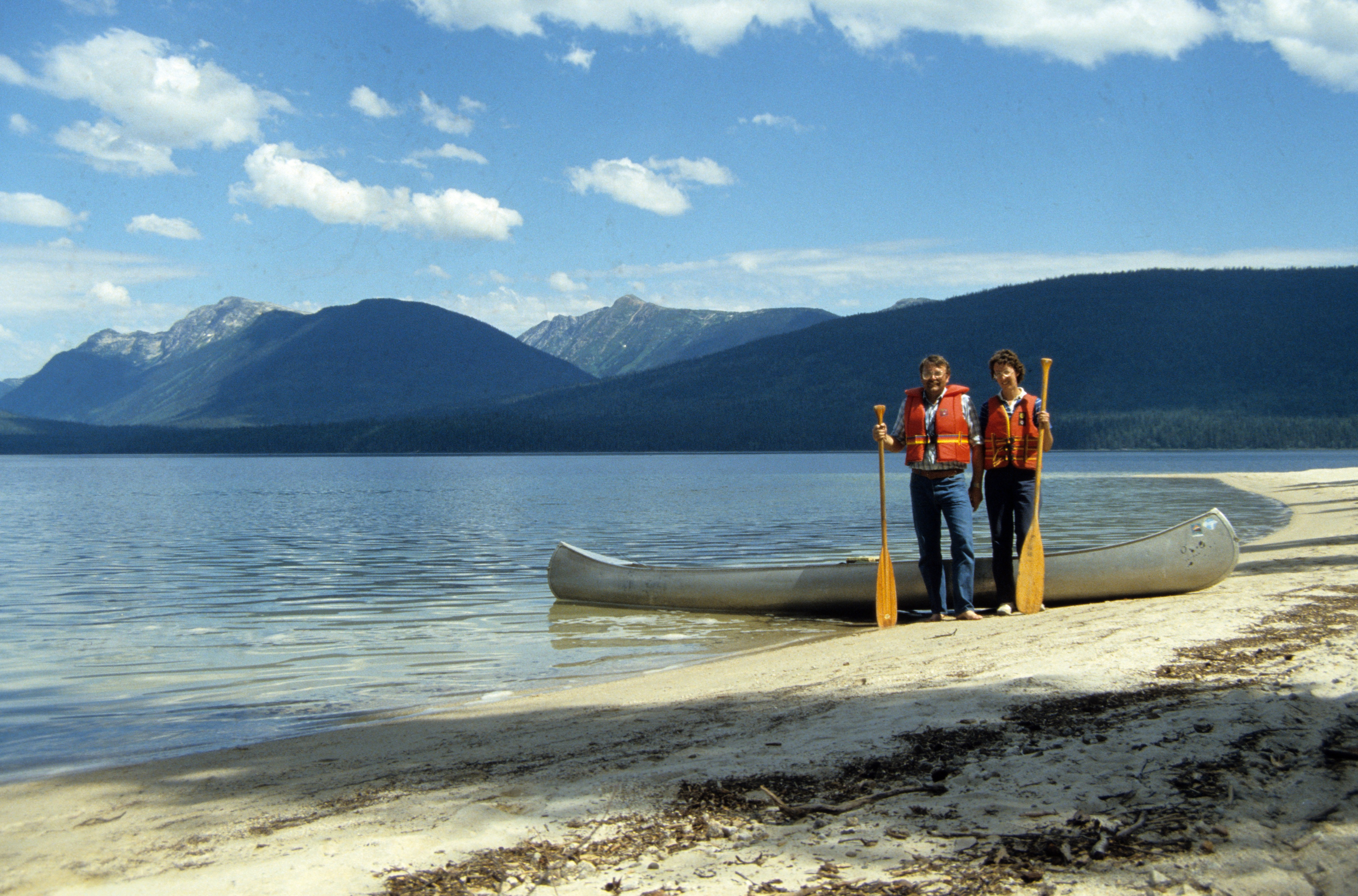 Photo by Roland Neave, contributor to Murtle Lake article. From personal collection.